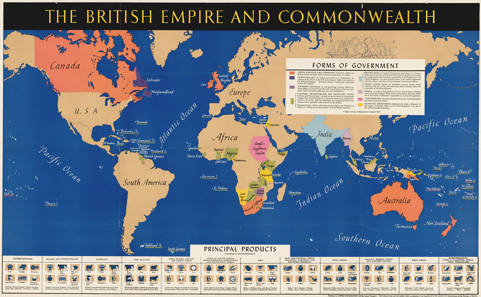 Propaganda Poster. British Empire and Commonwealth. Principal Products. Forms of Government